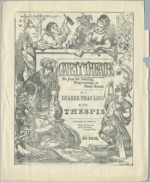 Programme from the original run of Thespis by Gilbert and Sullivan